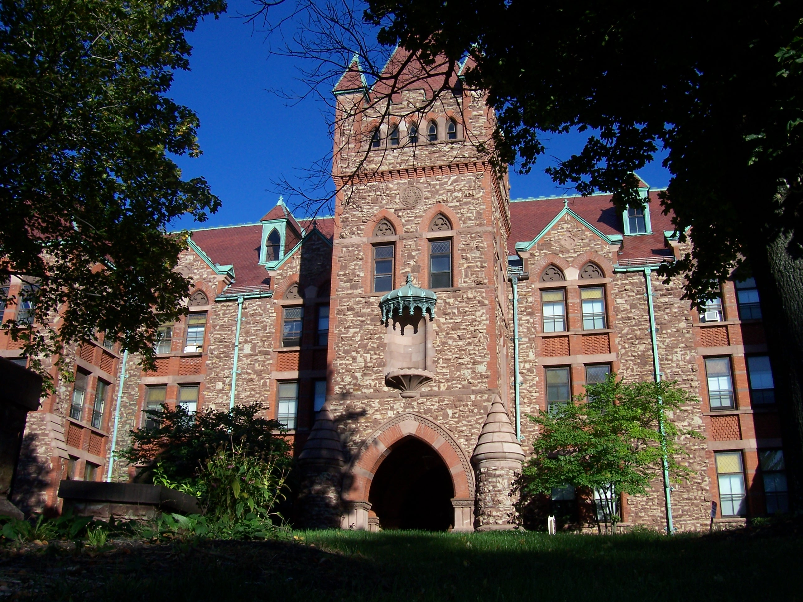 The former St. Bernard's Seminary on Lake Avenue in Rochester, New York